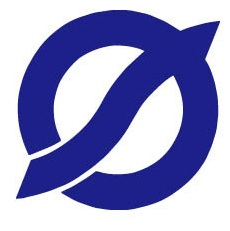 Minokamo Gifu chapter